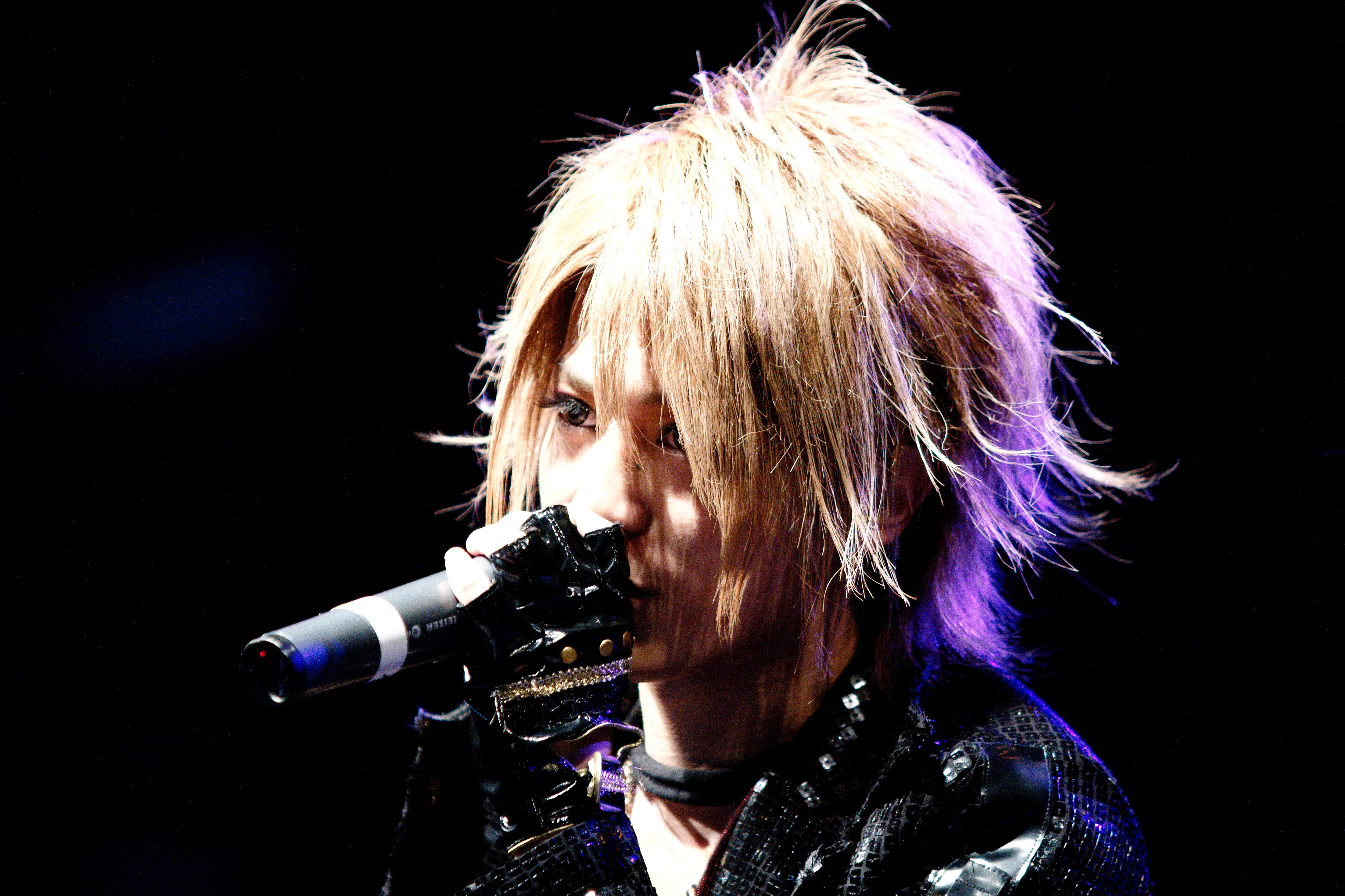 ViViD live at Japan Expo 2010 (Paris, France).